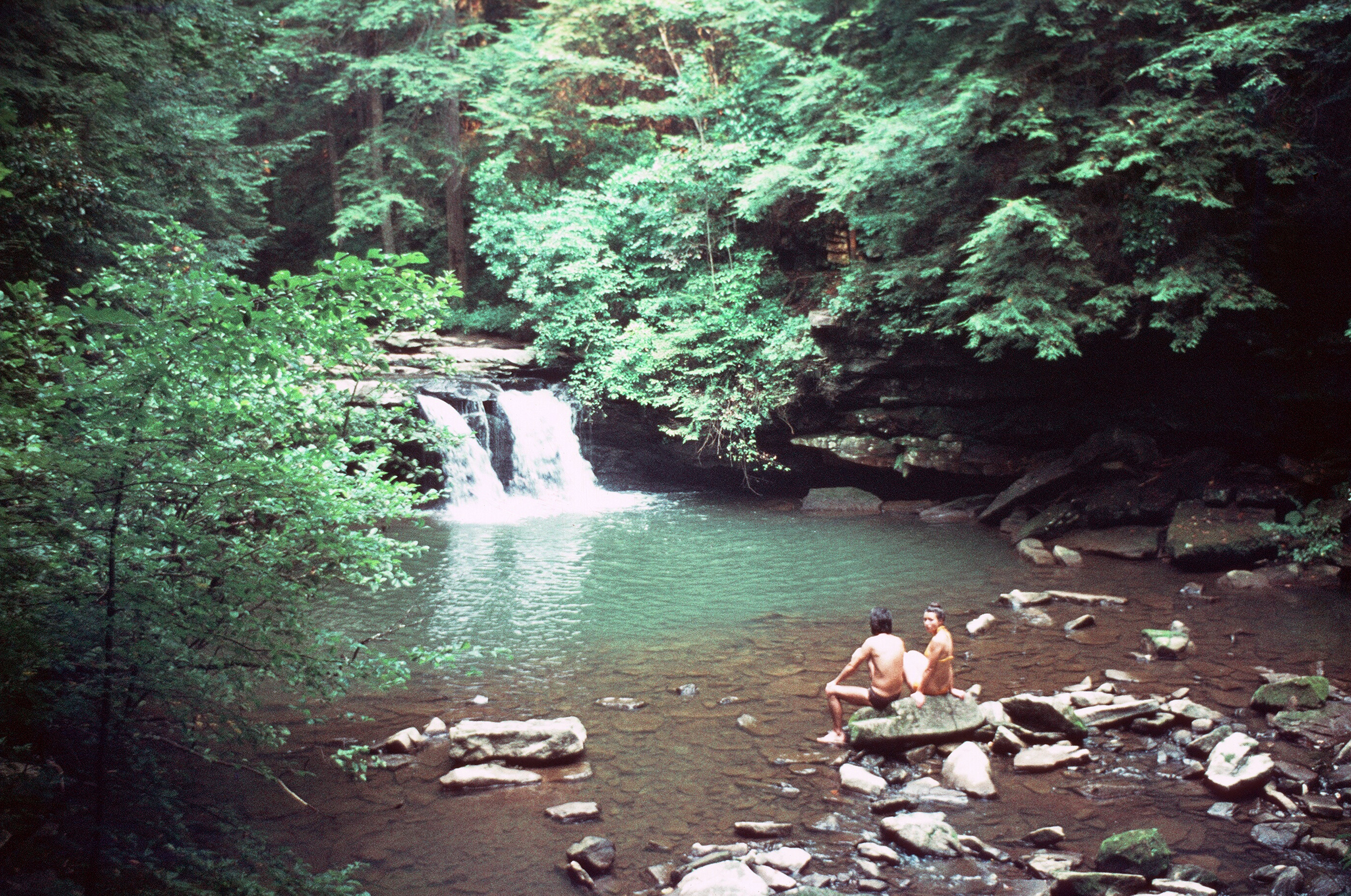 A couple wets their feet at the Blue Hole on the Fiery Gizzard Trail. Restored to remove some red scratches across the base of the waterfall.